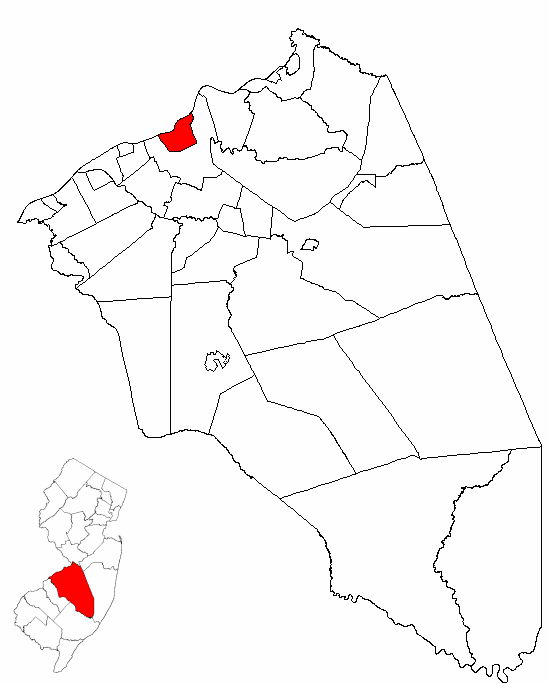 Map of Burlington County highlighting Burlington